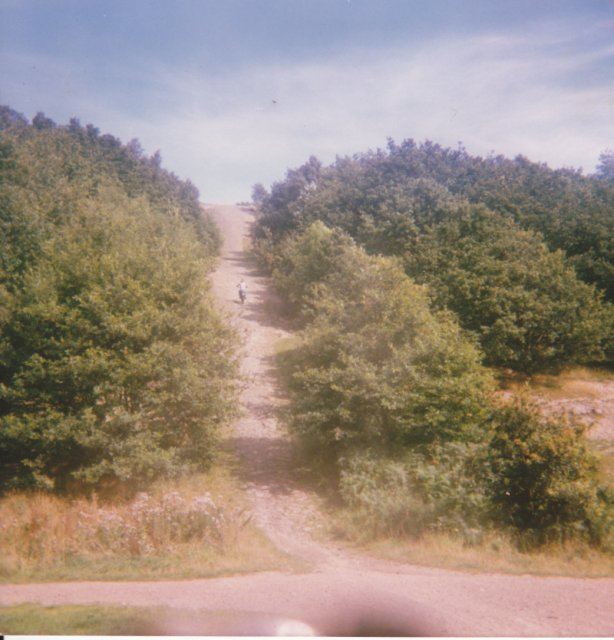 Track up Post Hill Fairly sure I took this in July 1987 - I do remember that it was far scarier coming down the hill on a bike than it was going up it!